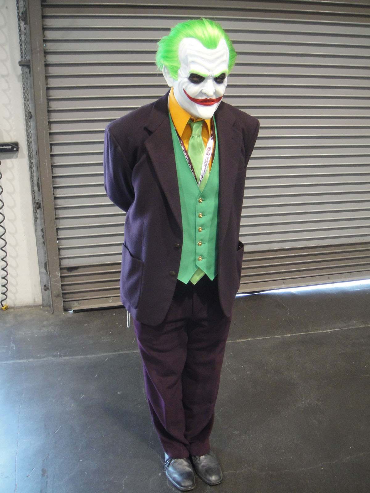 photo 2012 Pop Culture Geek taken by Doug Kline If you're interested in higher resolution versions of my images, contact me via my profile page.